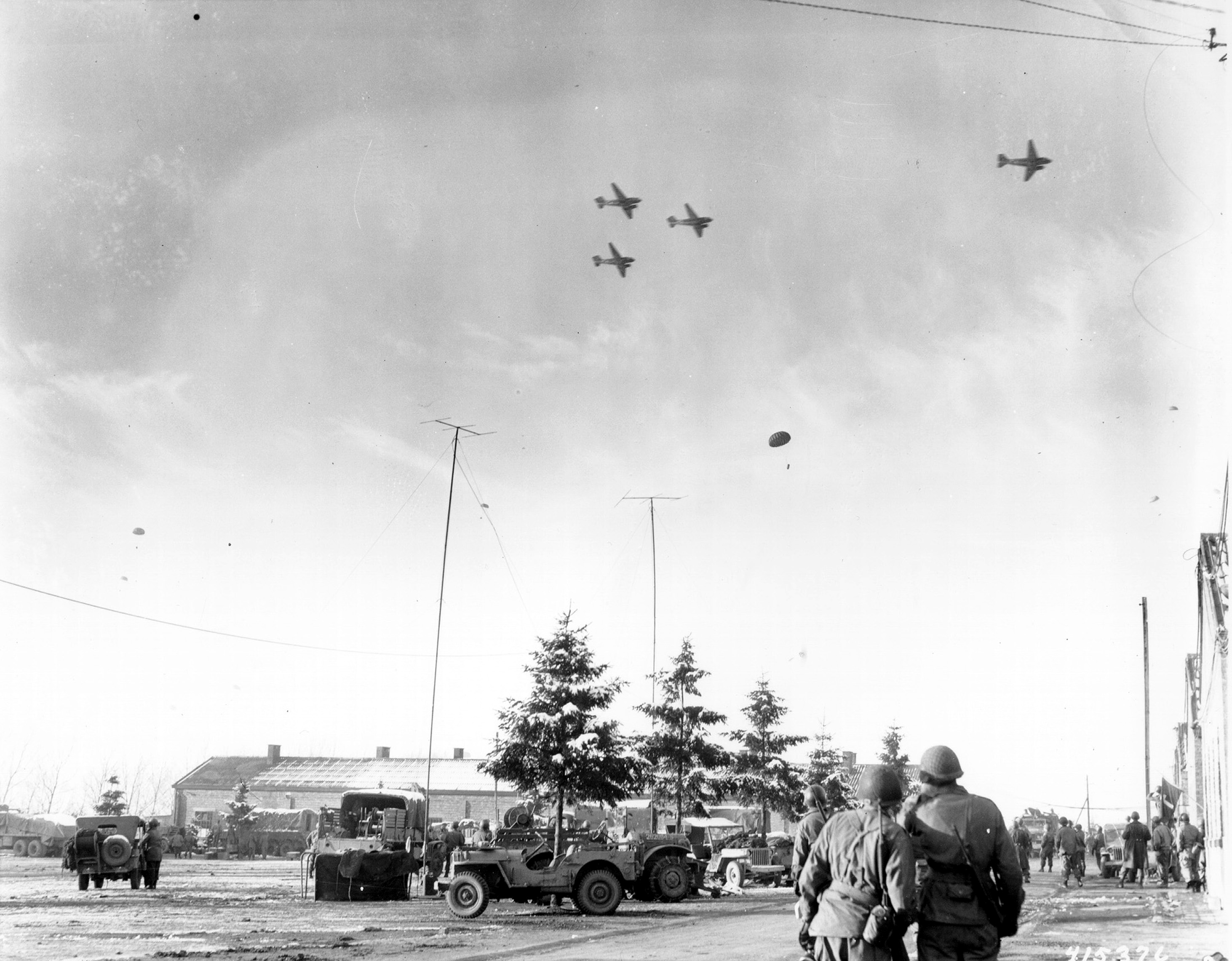 Photo taken by a U.S. Army Signal Corps photographer on 26 December 1944 in Bastogne, Belgium as troops of the 101st Airborne Division watch C-47s drop supplies to them. Jeeps and trucks are parked in a large field in the near distance.